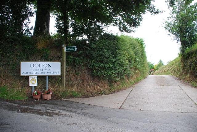 Dolton - Lane to Cleave Farm Intersection on the outskirts of Dolton of the B3217, the Tarka Trail and the lane to Cleave Farm.